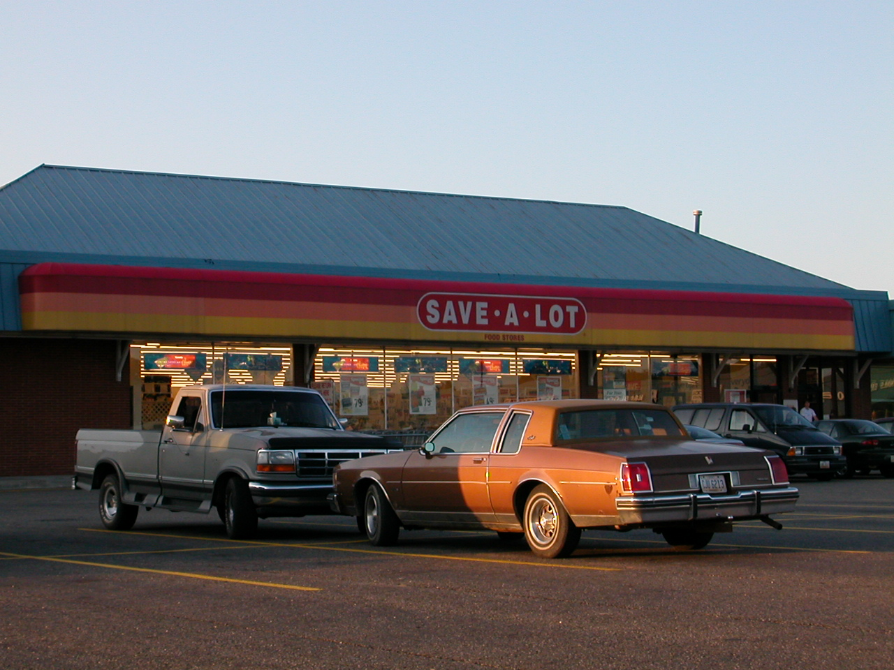 The Save-A-Lot grocery store in Streetsboro, Ohio, as it appeared in 2003.